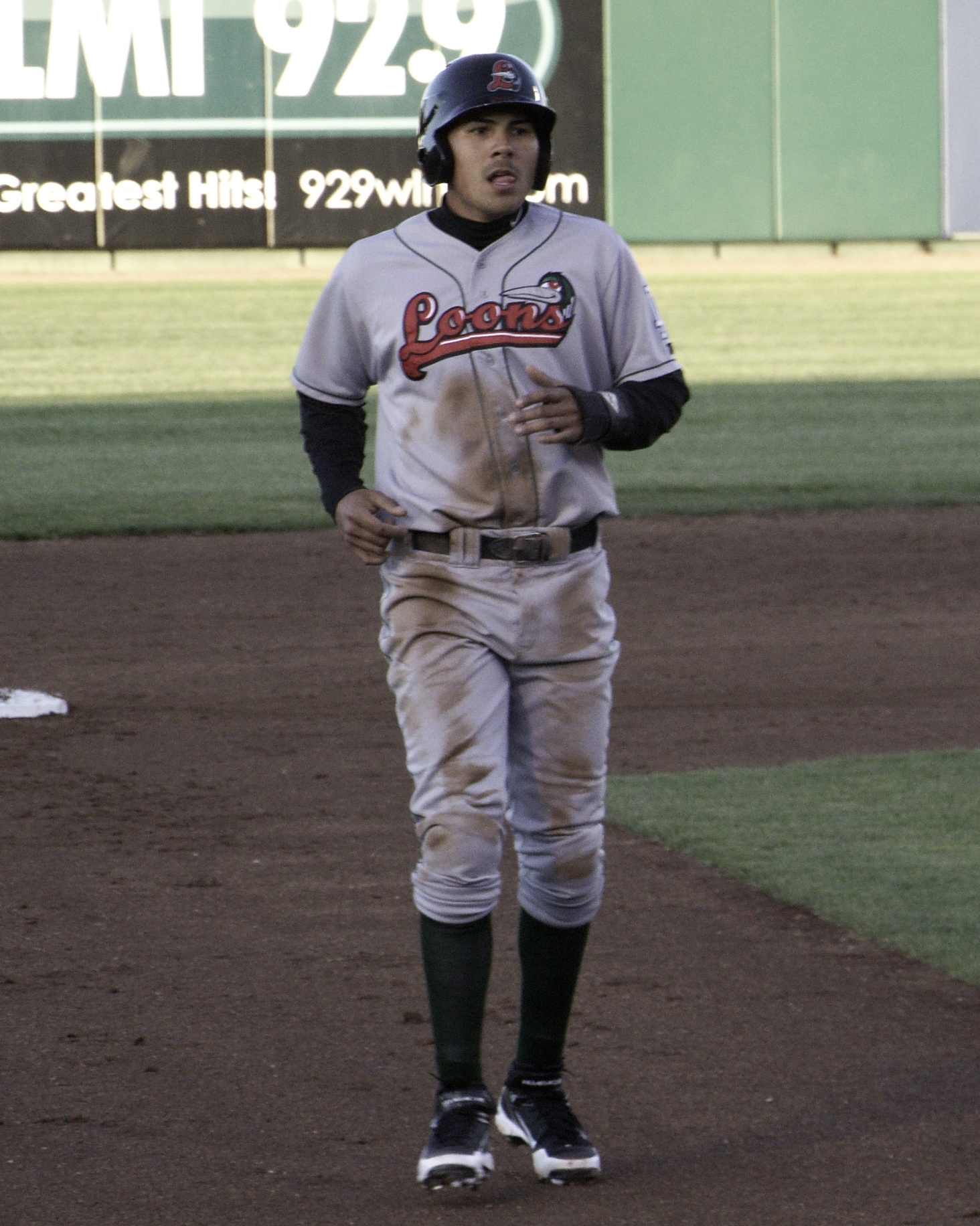 Noel Cuevas with the Great Lake Loons in 2012.